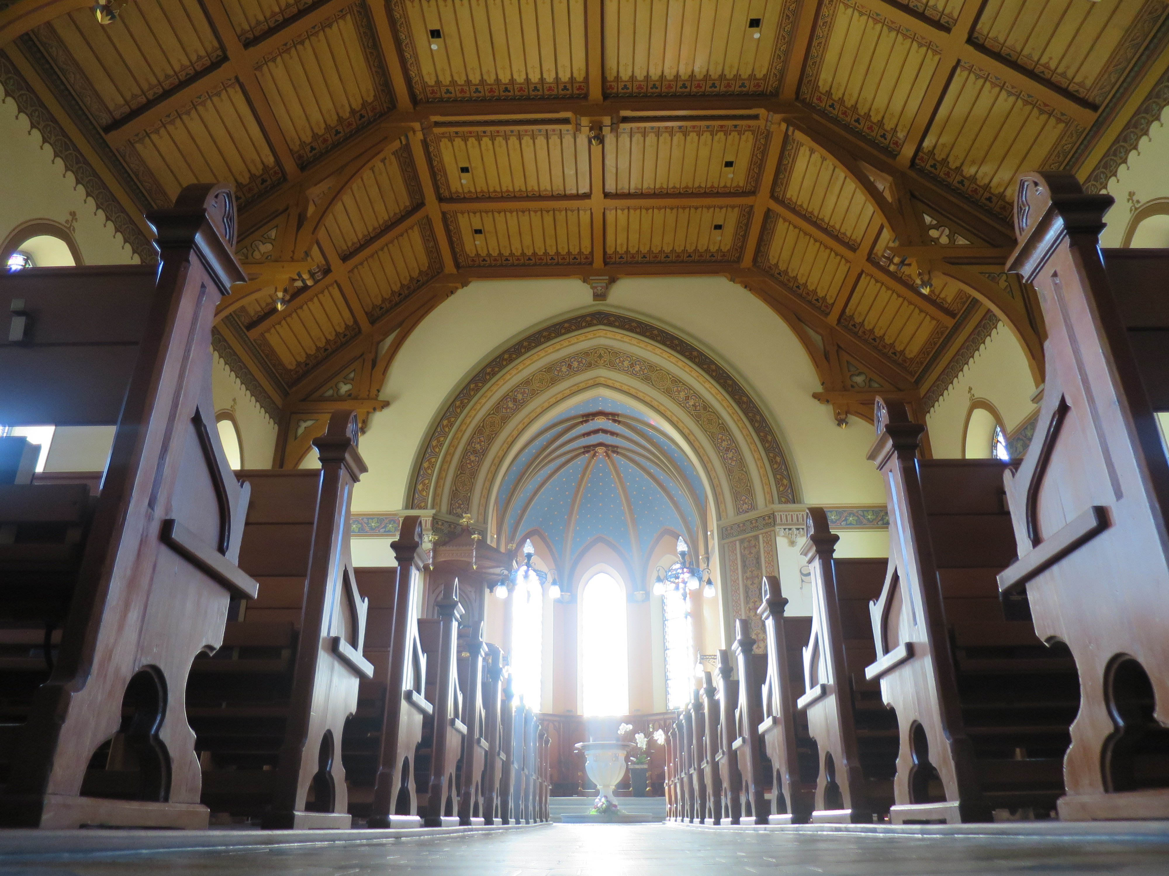 Innenraum der ref. Kirche Erlenbach ZH